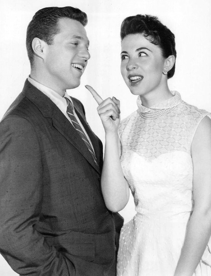 Photo of Steve Lawrence and Eydie Gorme from the television program The Steve Allen Show.